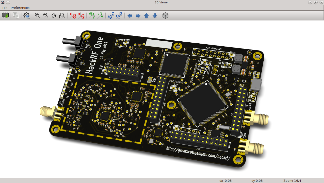 KiCad 3D Viewer